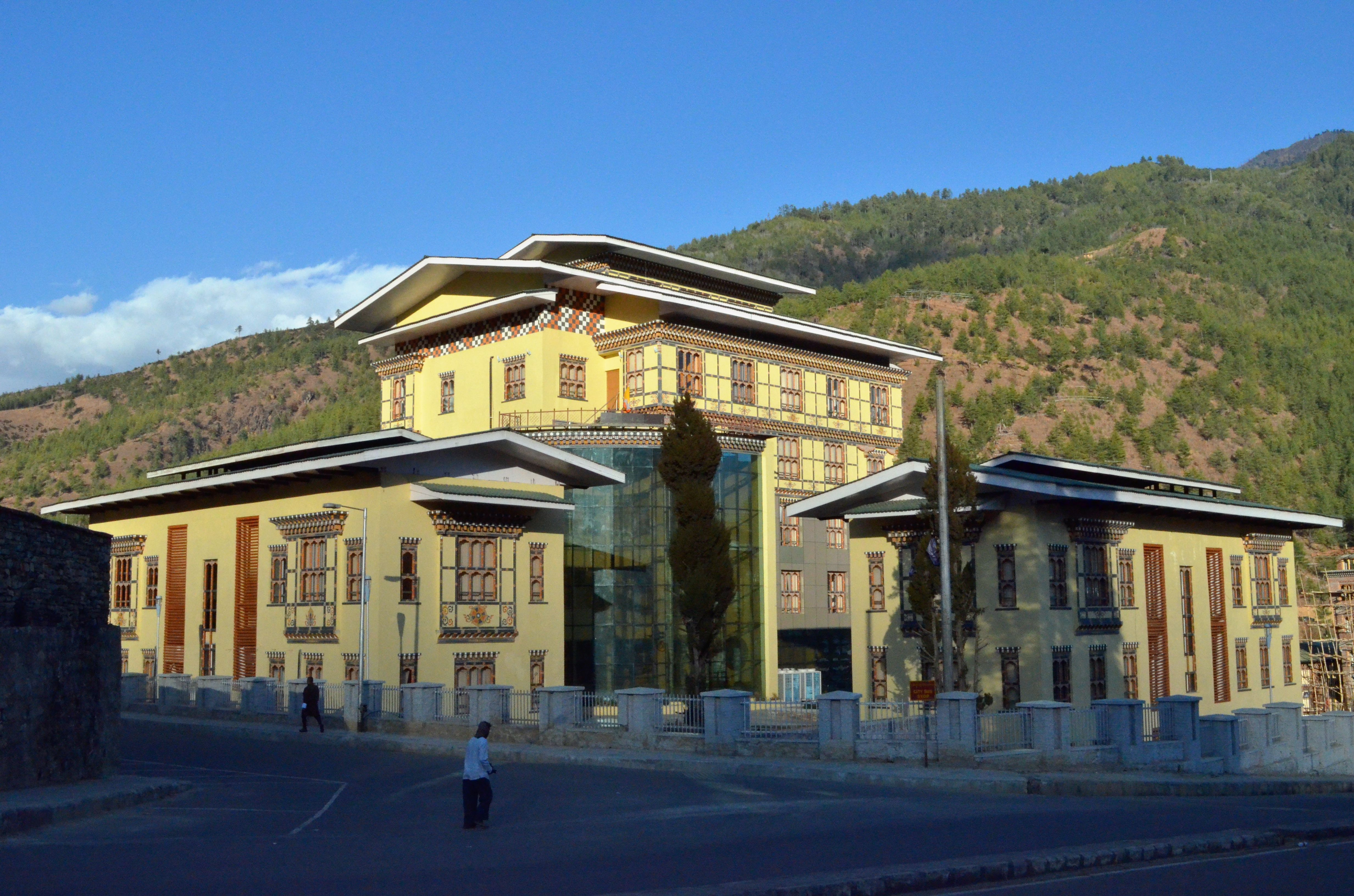 Head office building of Bhutan Power Corporation Limited, Thimphu Bhutan.